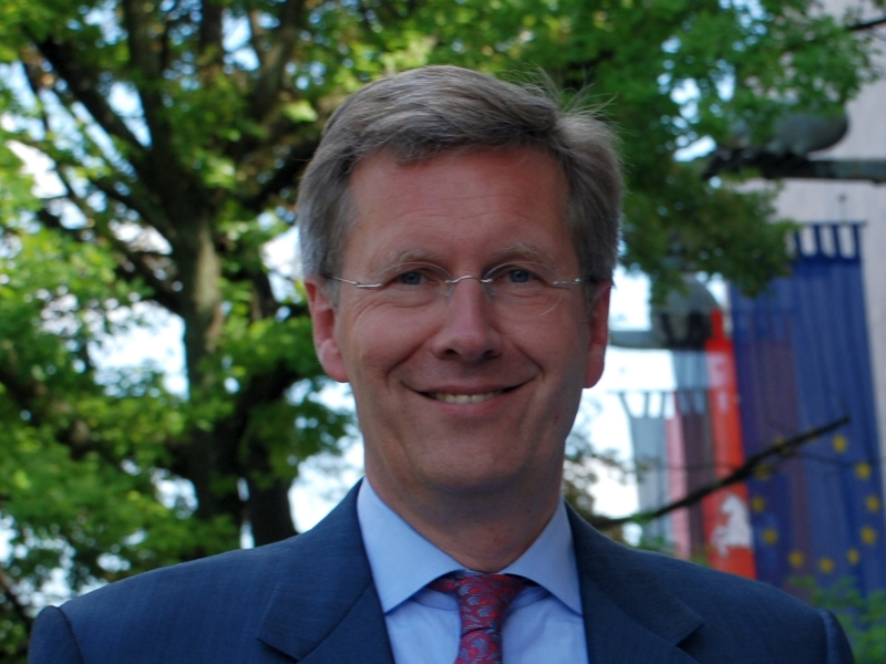 Christian Wulff (CDU), Premier (Ministerpräsident) of Lower Saxony, June 2009